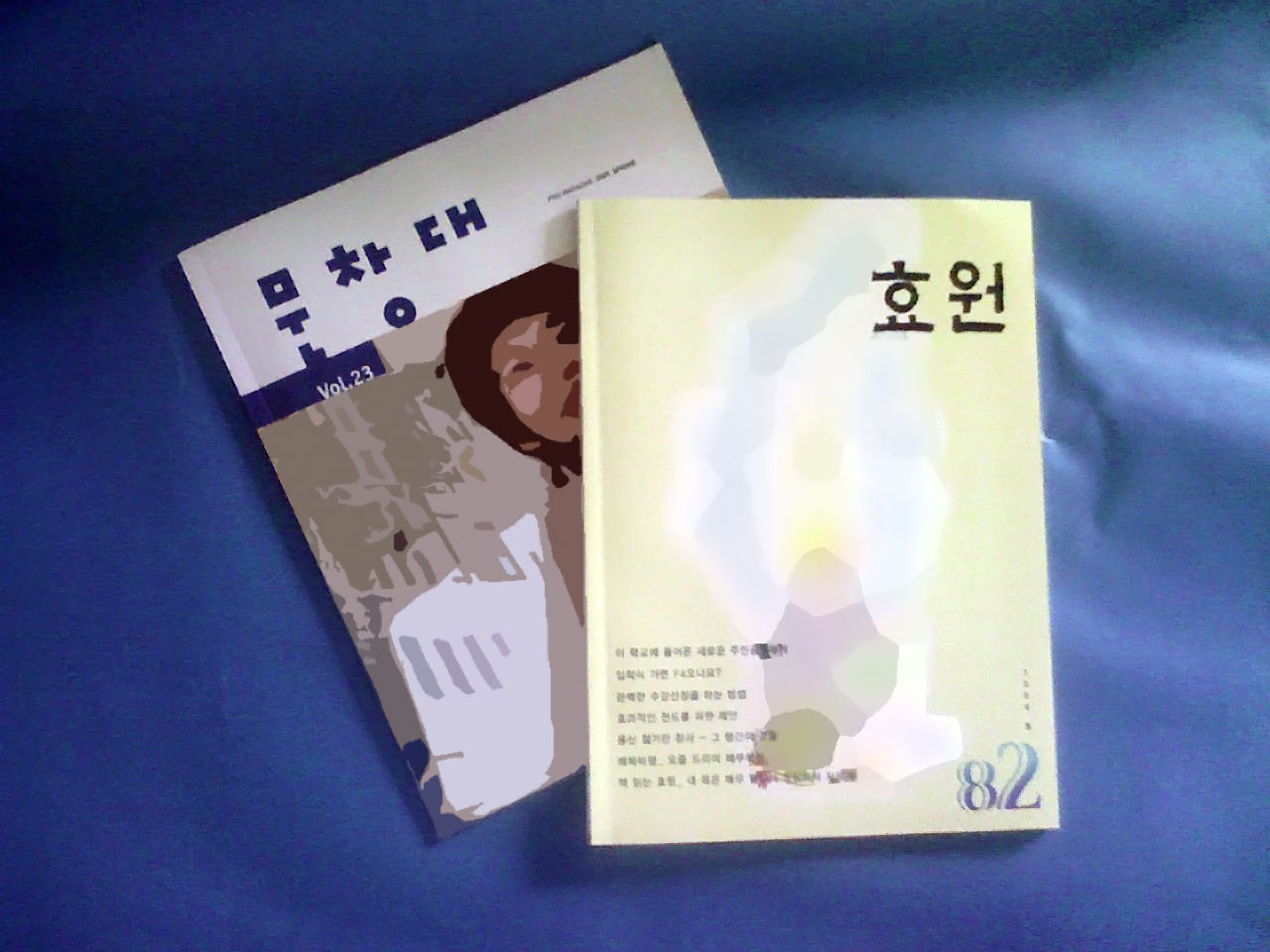 PNU's Magazine, "Moonchangdae" and "Hyowon"